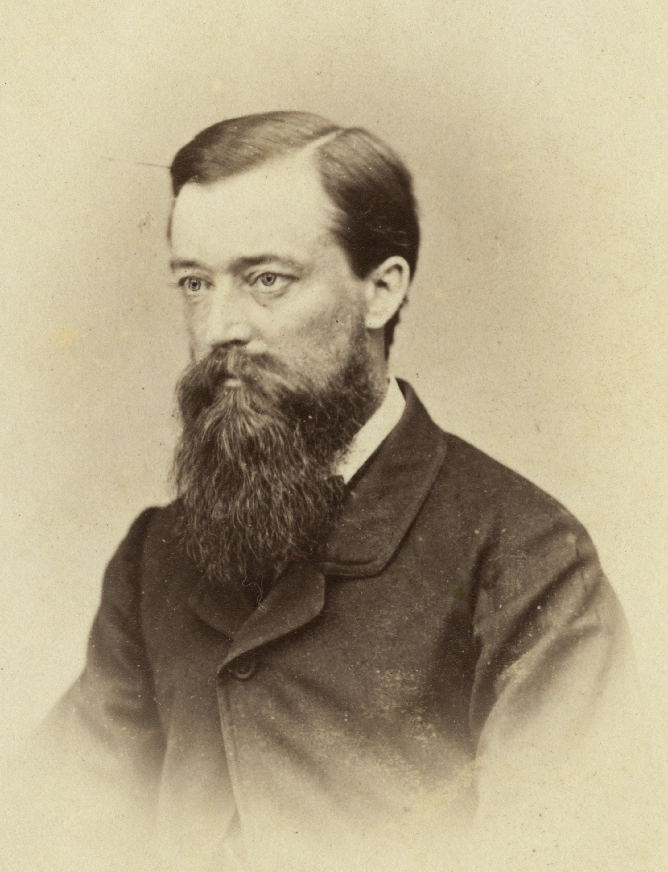 Portrait of Crosbie Ward